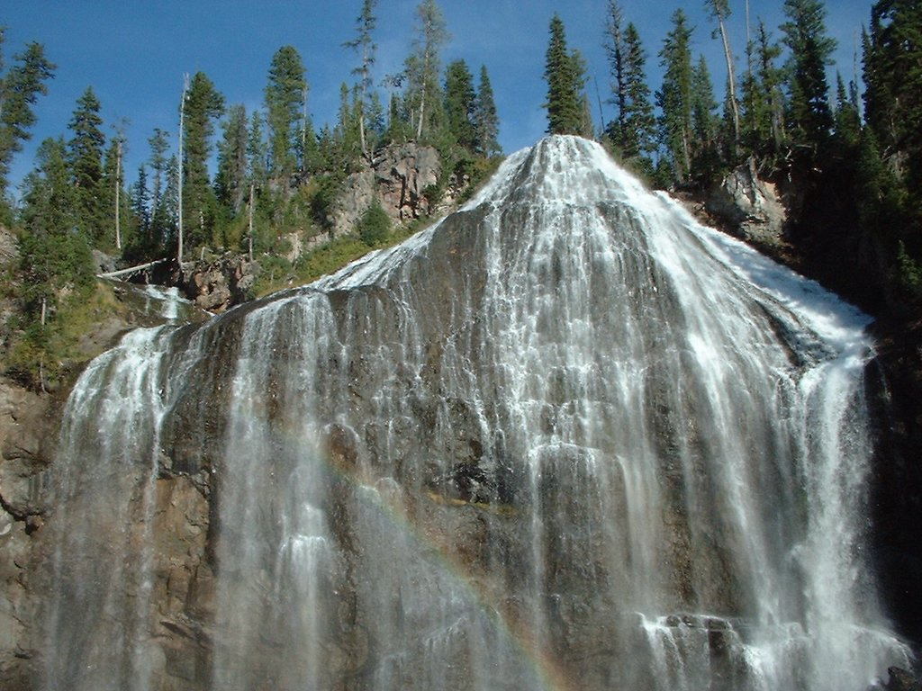 This is a picture of Union Falls in the southwest part of Yellowstone NP.